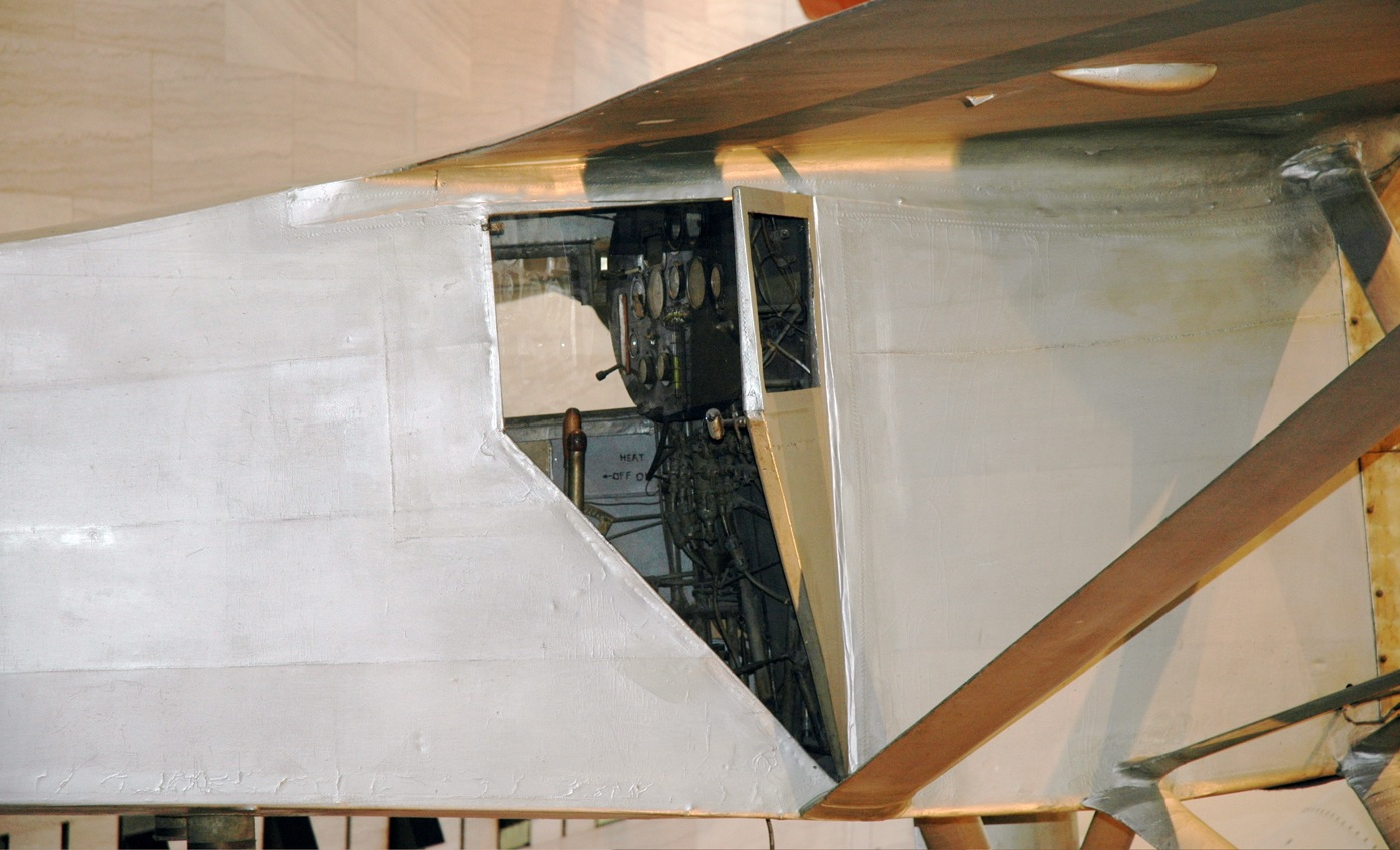 Cockpit of Spirit of St. Louis aircraft (National Air and Space Museum, Washington D.C.)